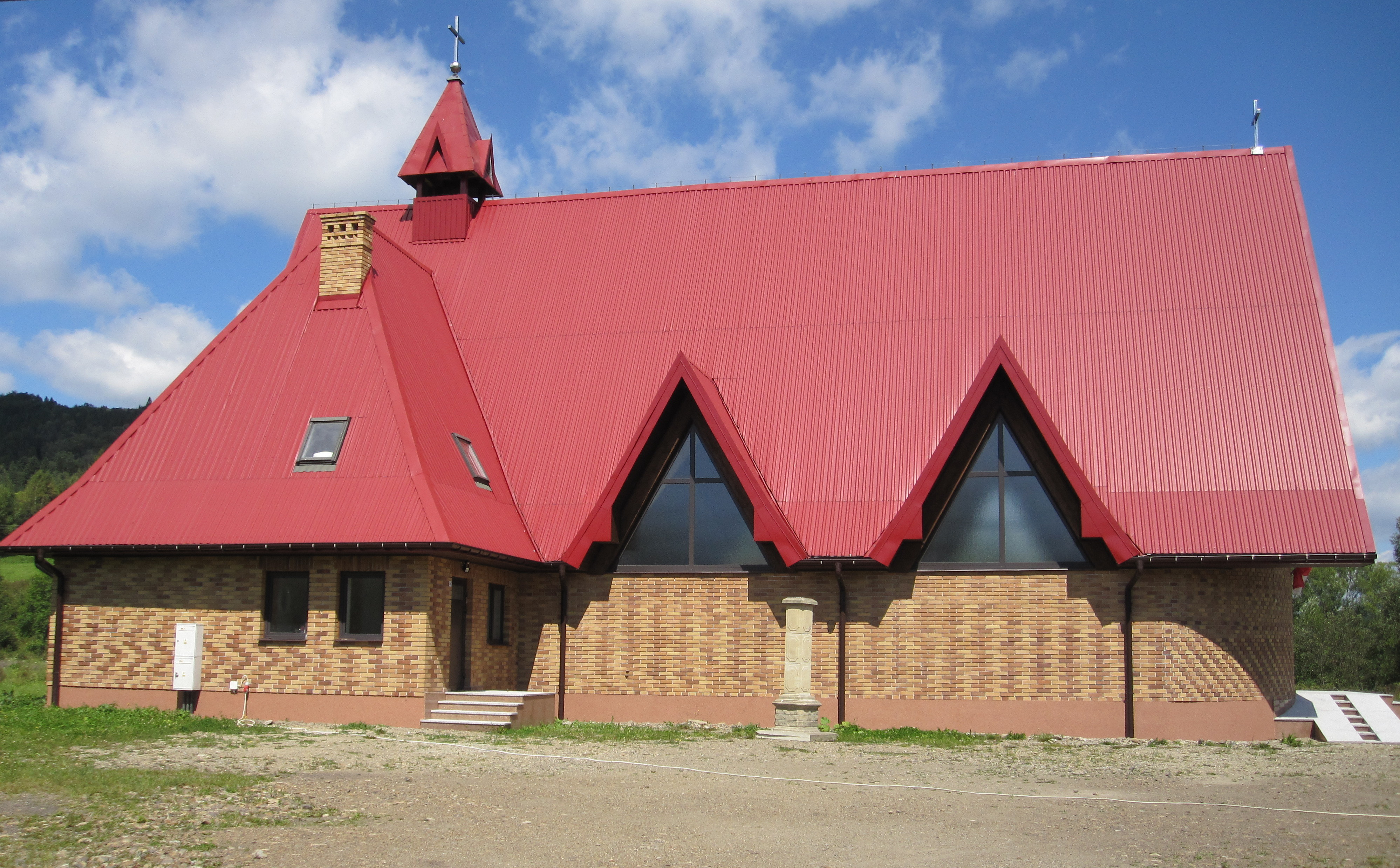 Church of Saint Francis of Assisi in Kalnica near Wetlina